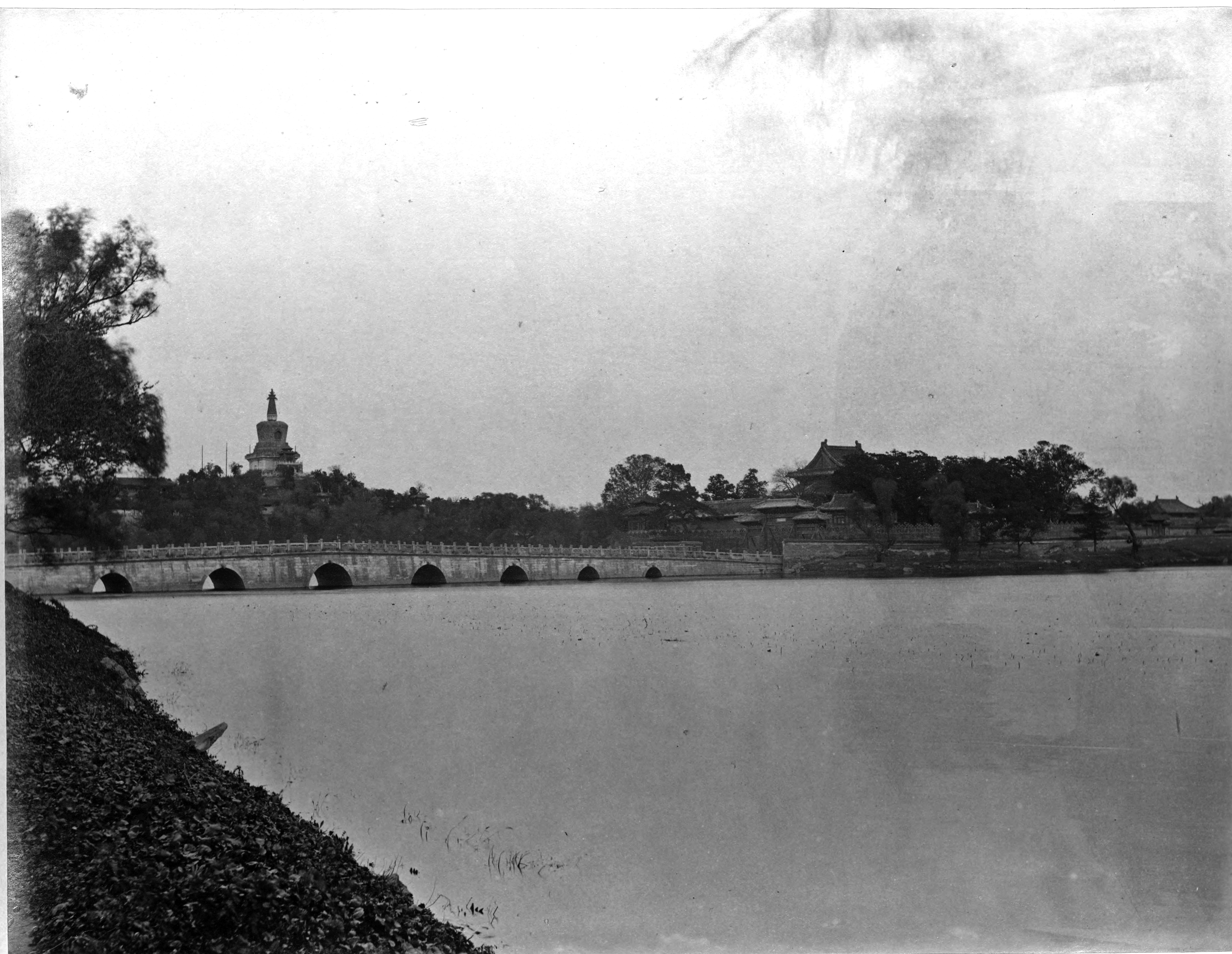 Photograph in Album of photographs of Peking and its environs.